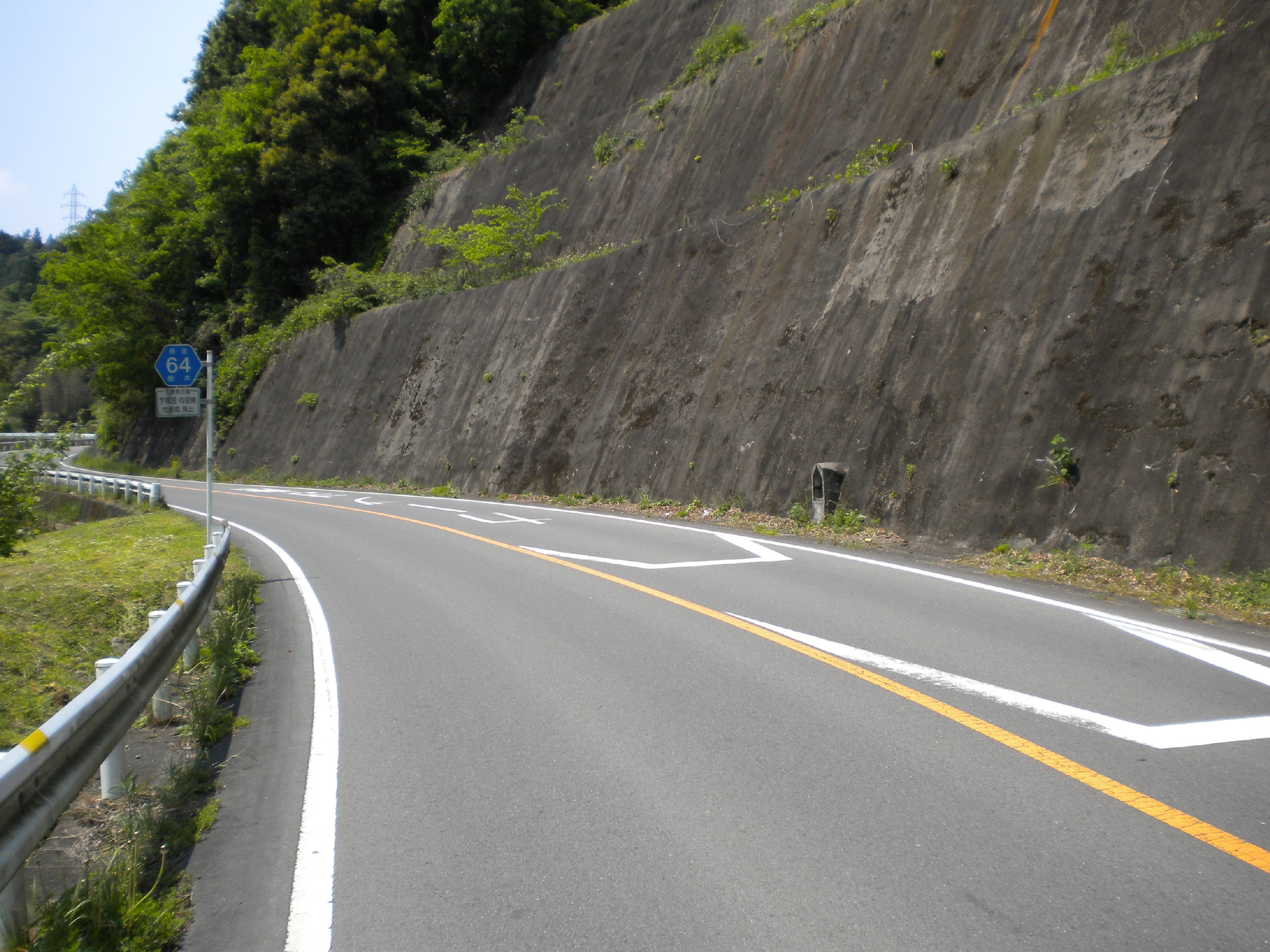 The Tochigi Prefectural Road Route 64 in Miage, Ichikai Town